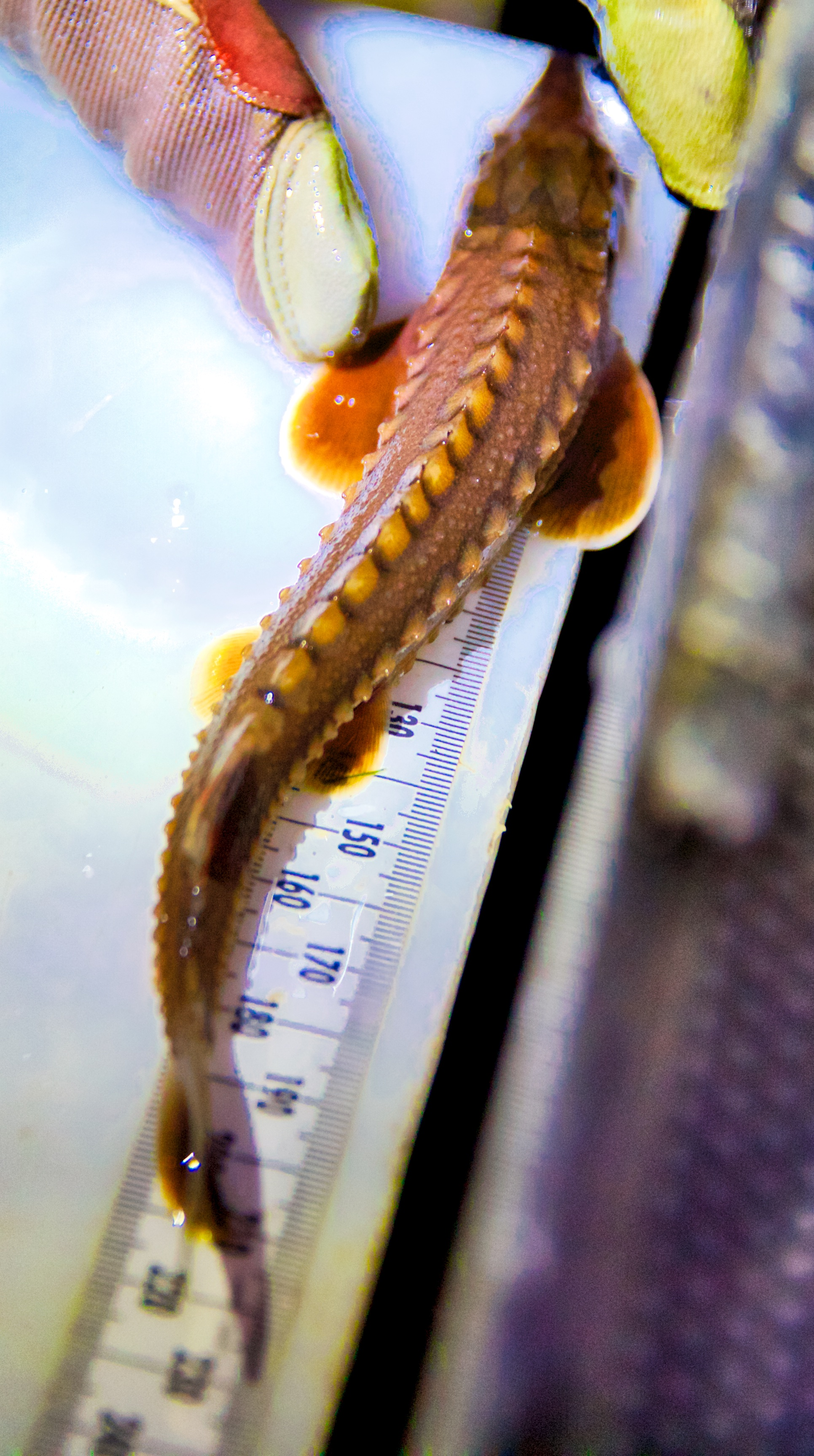 One of the four juvenile green sturgeon captured on Dec. 7, 2017 by a USFWS crew monitoring green sturgeon on the upper Sacramento River. USFWS Photo/Steve Martarano/USFWS